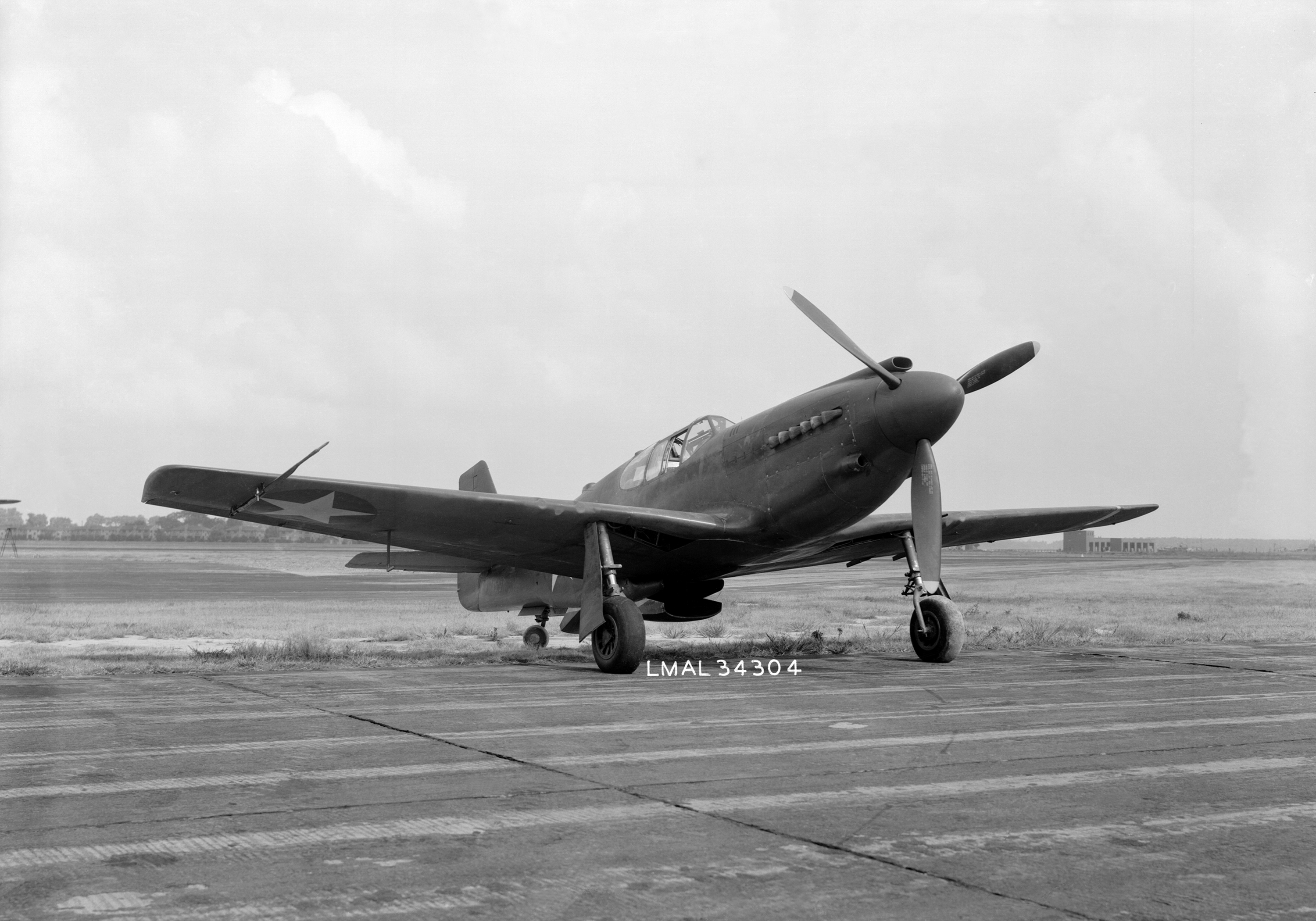 The North American XP-51 Mustang was the first aircraft to incorporate an NACA laminar-flow airfoil. This is the second XP-51, which arrived at Langley in March 1943.